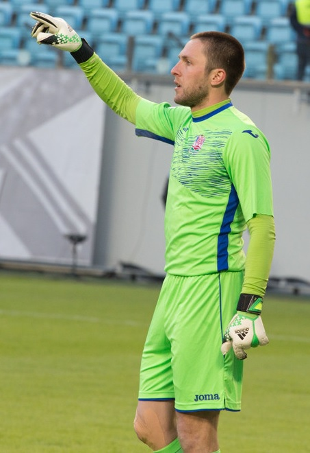 Anton Antipov with PFC Spartak Nalchik in a game against FC Dynamo Moscow.